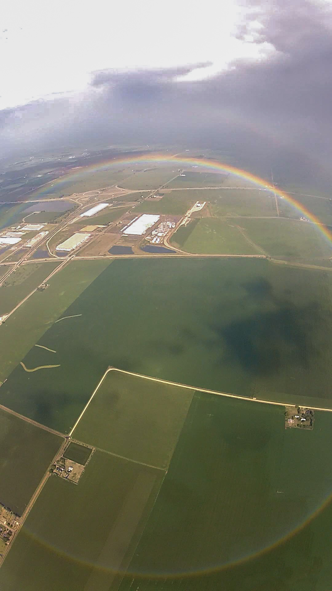 A circular rainbow (with faint double rainbow) captured on video while skydiving.